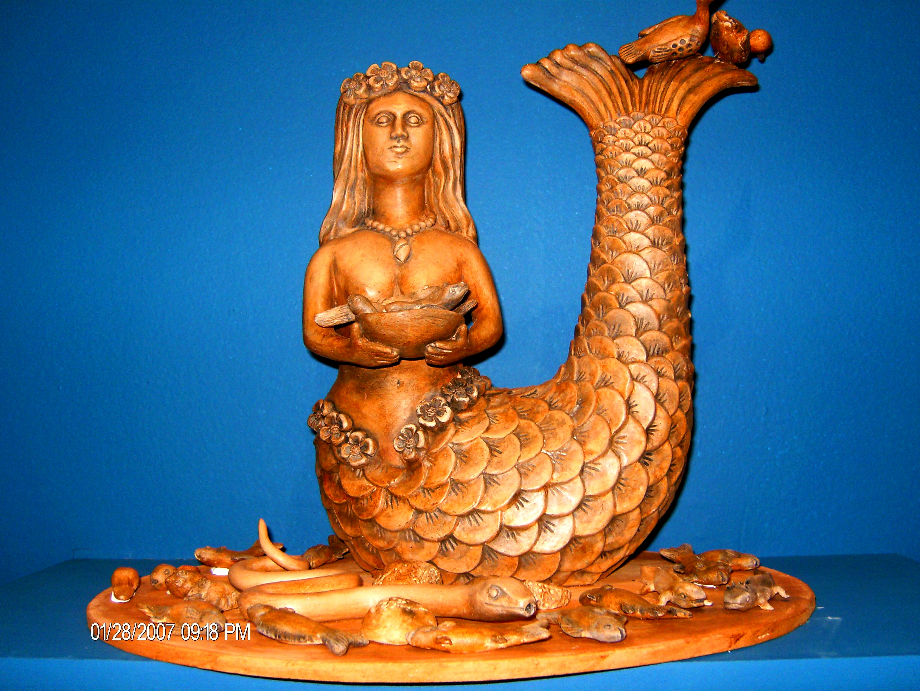 Artesania de Metepec de Barro natural exhibida en el Museo de la Casa del Risco